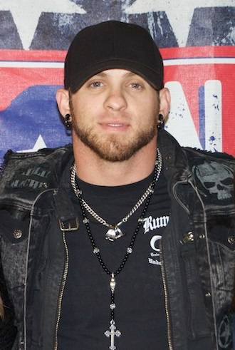 Brantley Gilbert in 2013 - image trimmed to focus on person